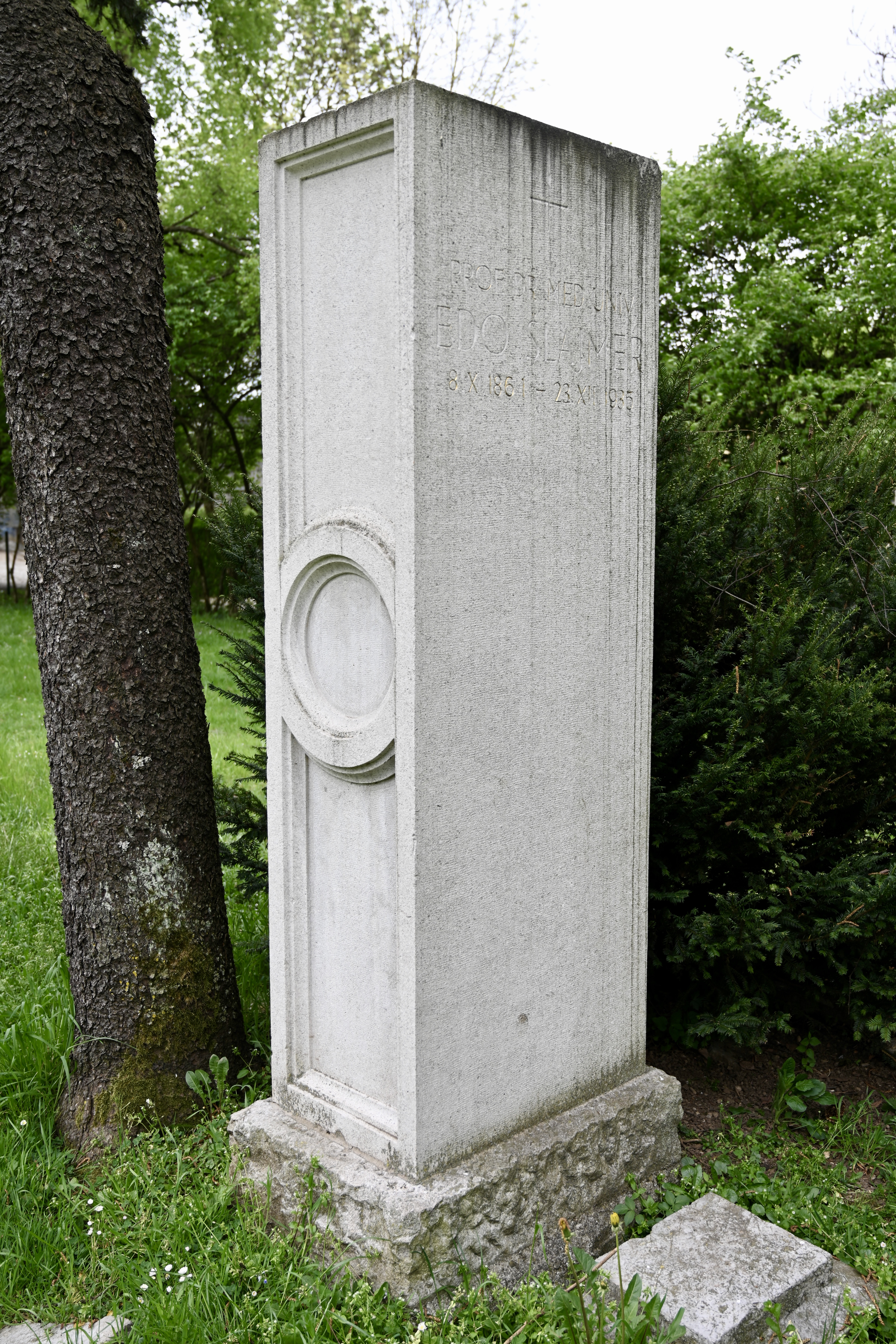 Tombstone of dr. Edo Šlajmer, Slovenian physician and surgeon, at Navje in Ljubljana.